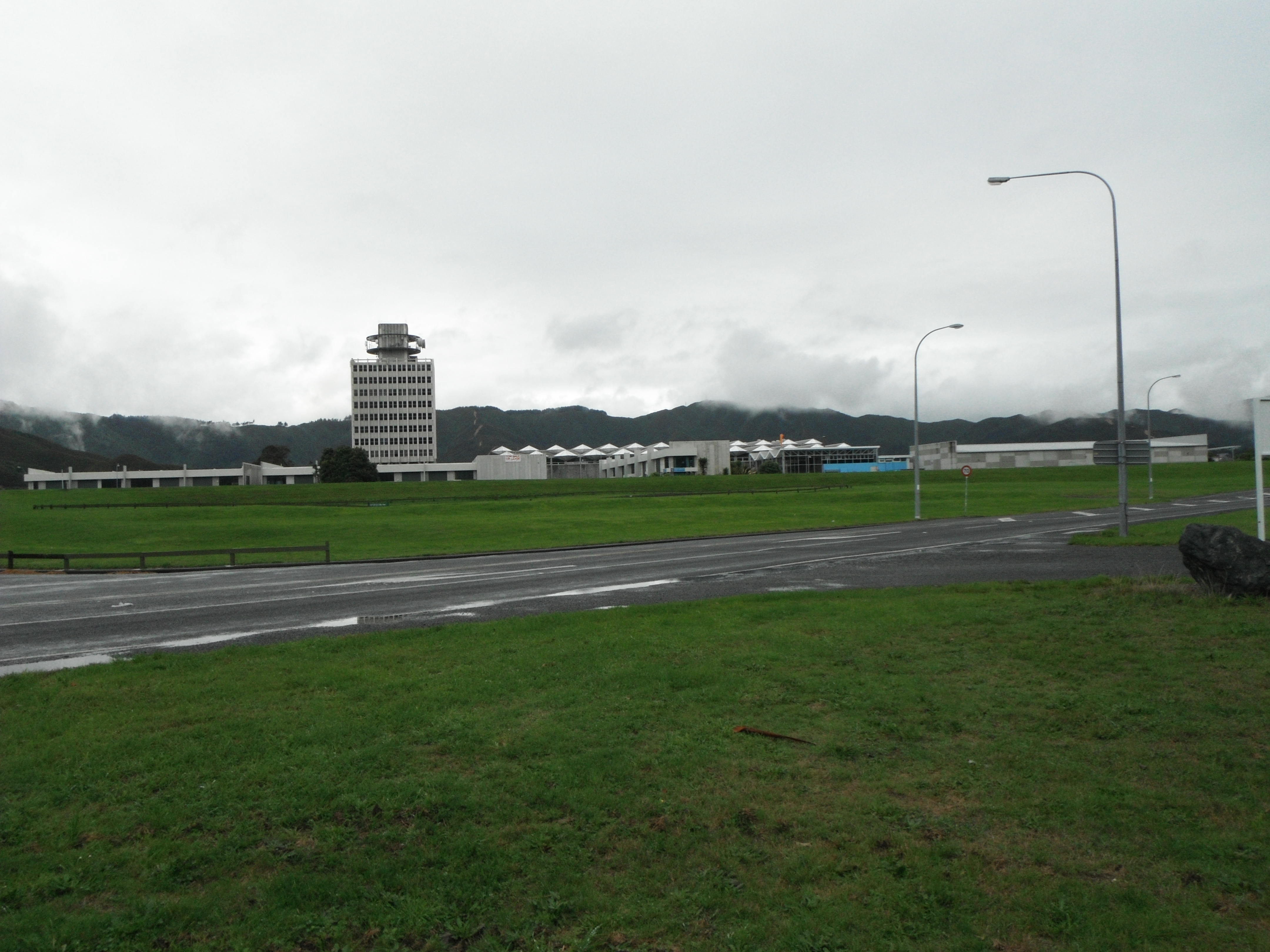 The Avalon television studios in Lower Hutt, New Zealand.